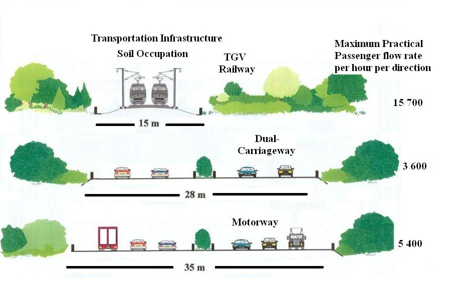 800 iii Infrastructure comparison